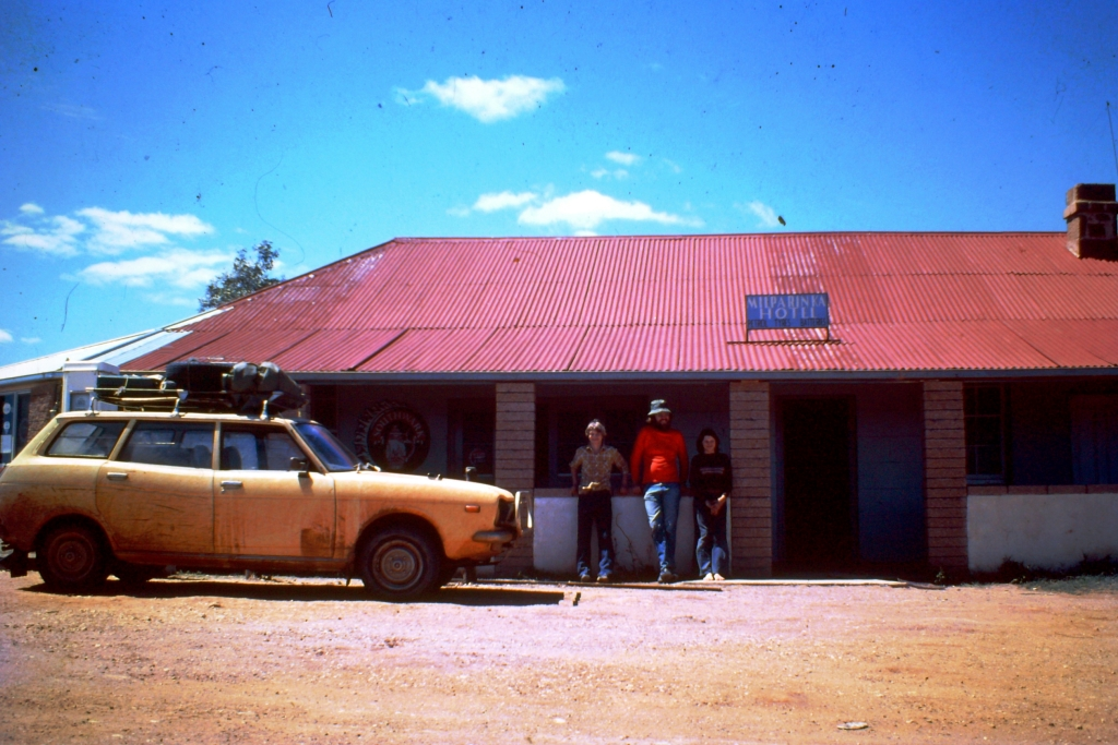 I took this photo myself on a trip through far western N,S,W, in 1976